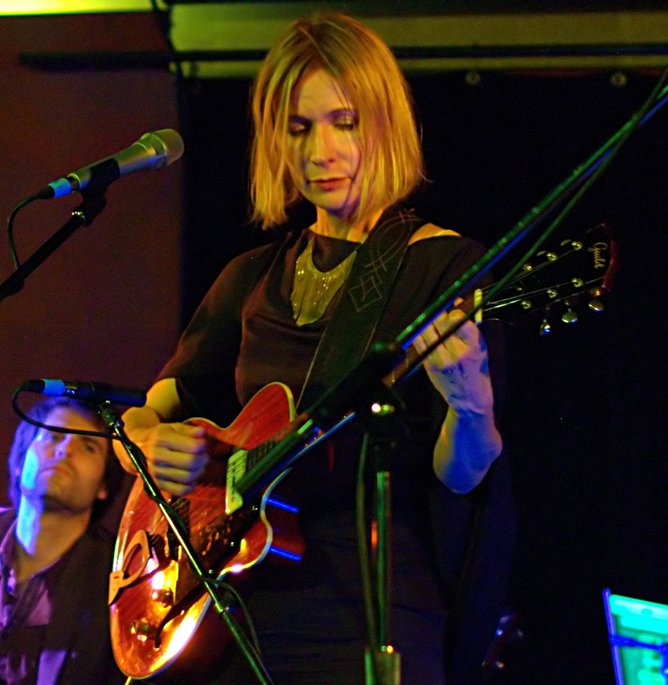 The singer and songwriter Sam Phillips during her concert at the Hugh's Room music venue in Toronto, Ontario, Canada